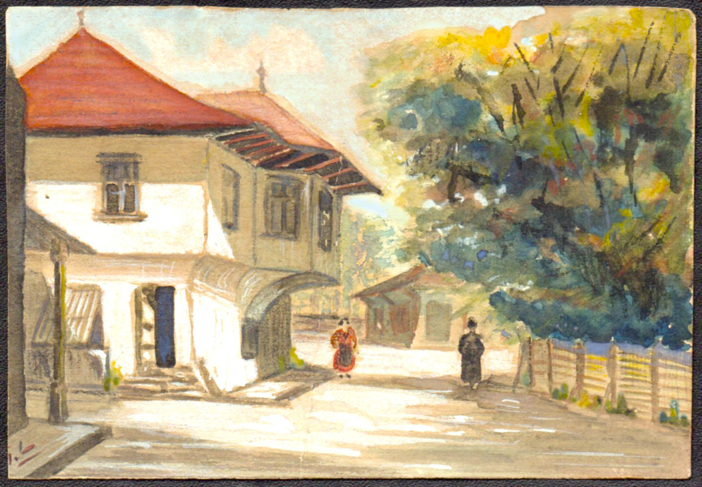 Bucharest 1866 : Blănari street at 3 p. m., by Dieudonné Lancelot (dead 1894)